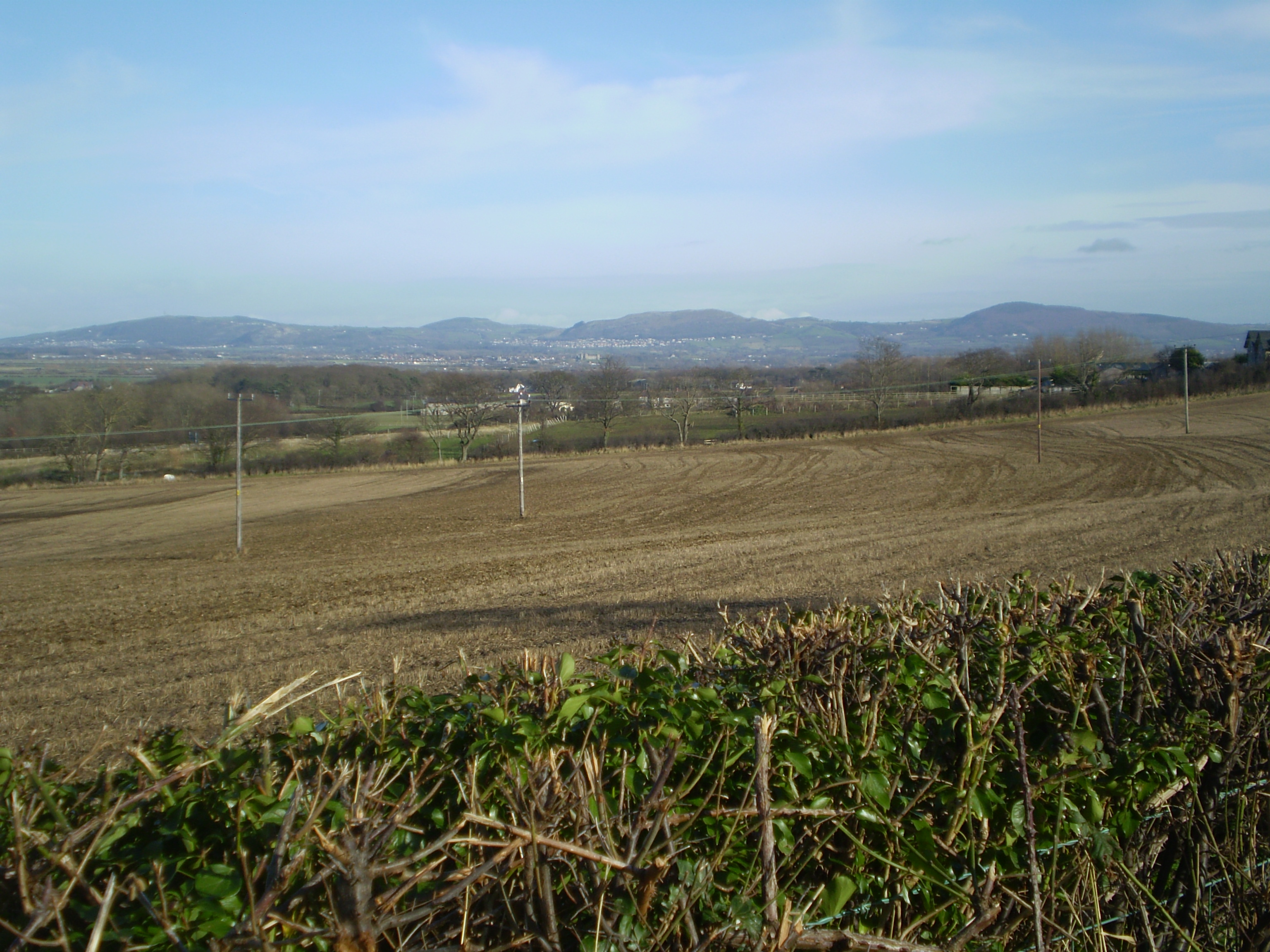 Clwydian range of hills from Abergele, North Wales